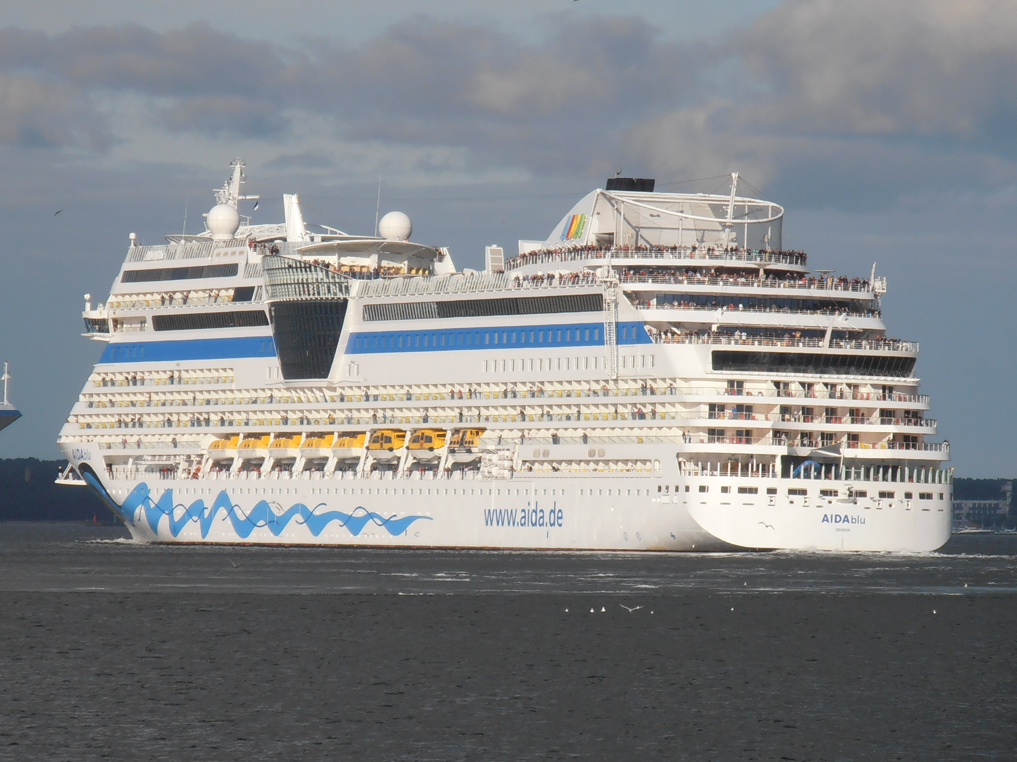 AIDAblu departing Tallinn 10 September 2012